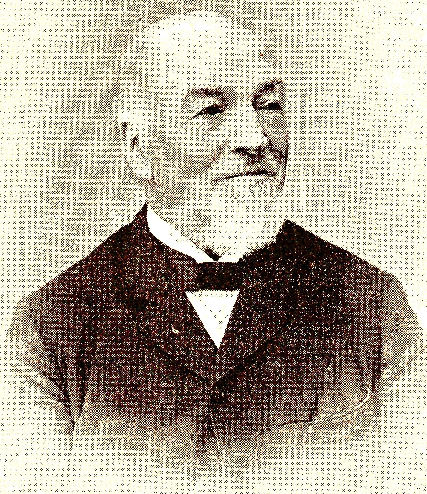 C.T. Stork